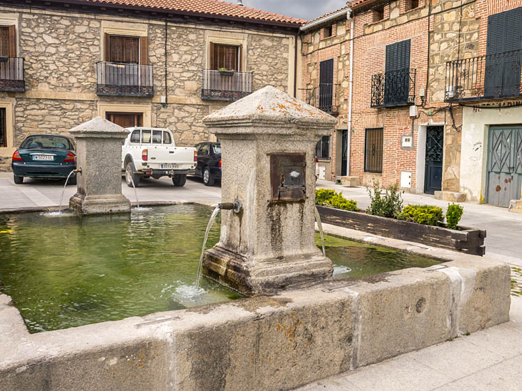 Fuente de los cuatro caños.